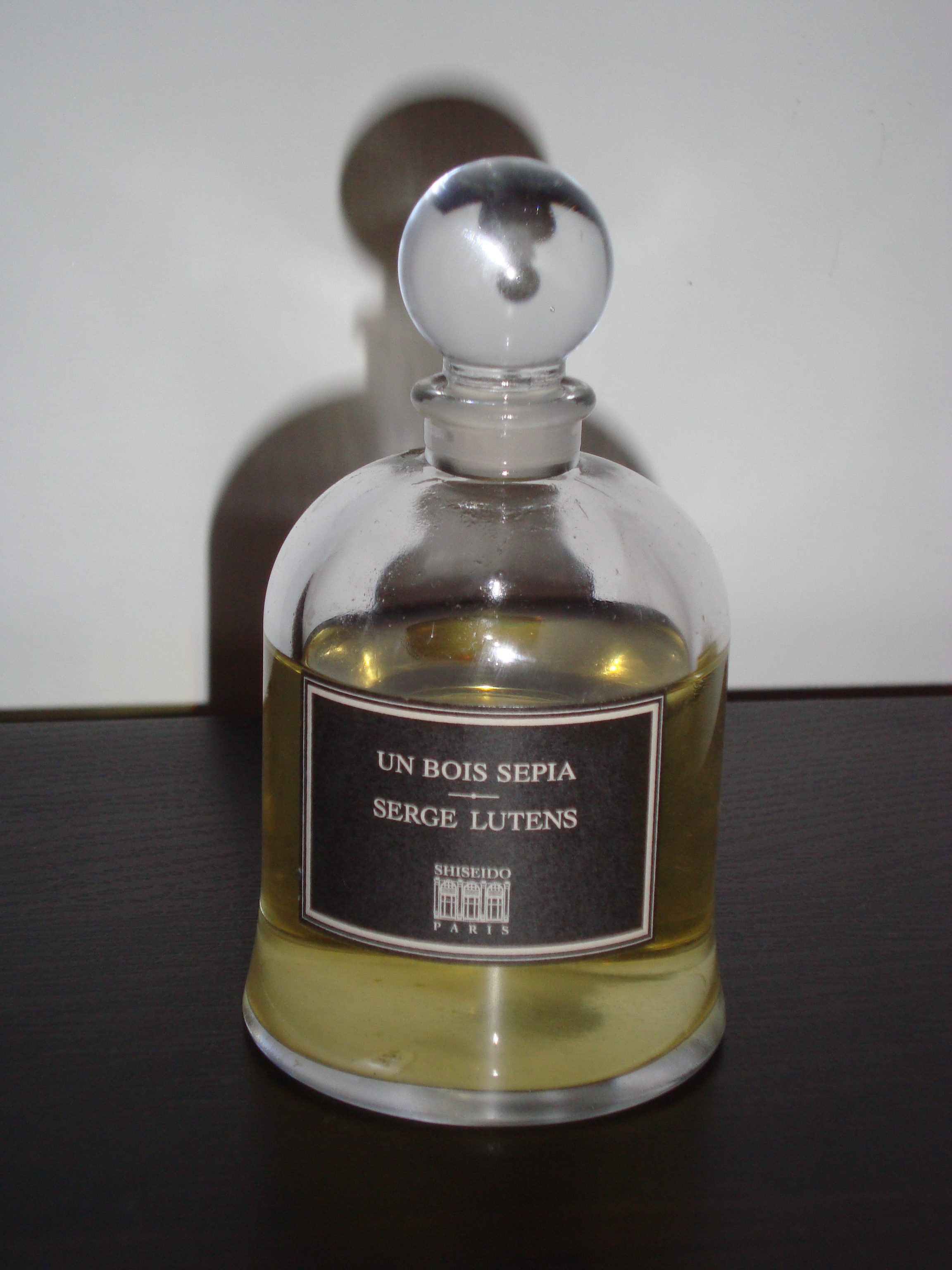 Bottle of perfume Bois Sepia by Serge Lutens